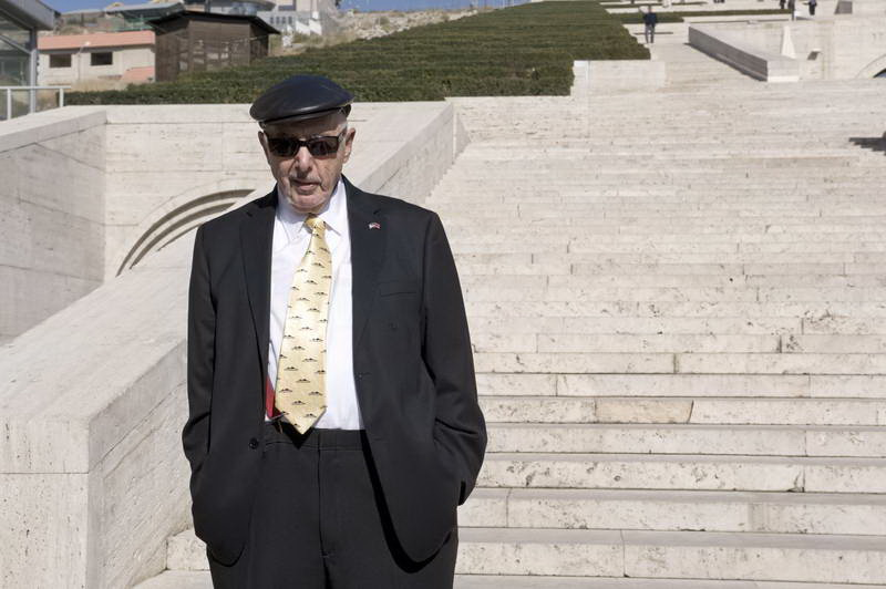 Gerard L. Cafesjian in Yerevan attending the opening of his art center -- the Cafesjian Center for the Arts, November 2009